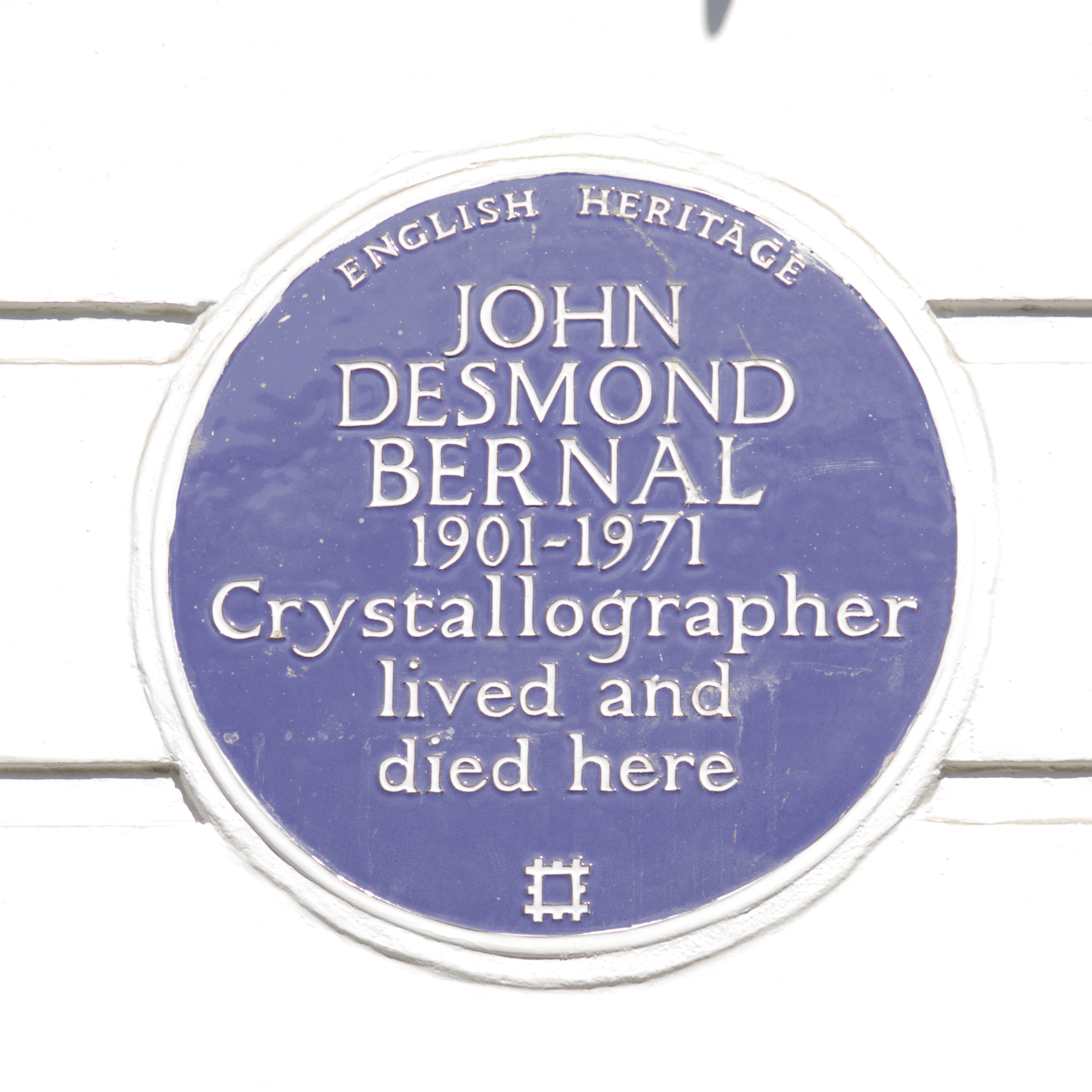 John Desmond Bernal 1901-1971 English Heritage blue plaque.